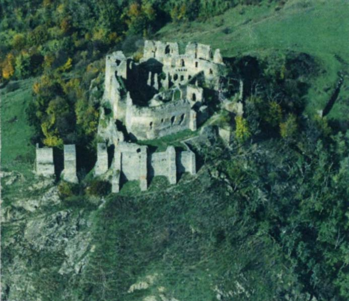 Soimos fortress (Arad county, Romania)